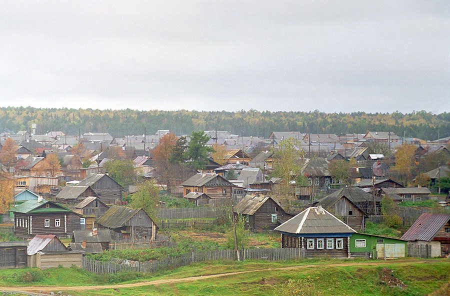 Panorama of Verchotur'e, Sverdlovsk Oblast'.